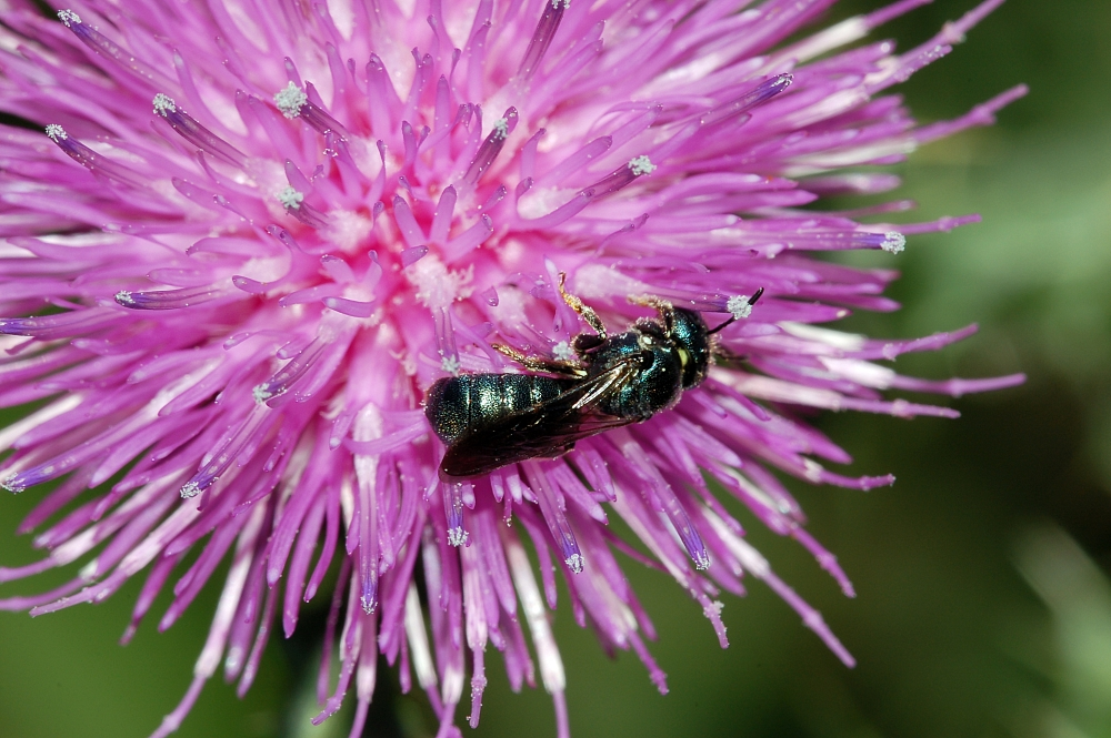 Ceratina species, Schwanheim Dune, Frankfurt/Main, Germany